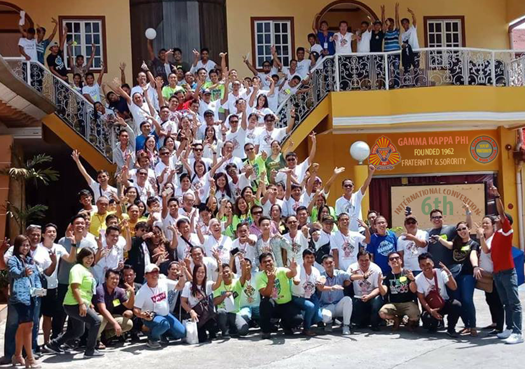 Member Delegates attended the 6th International Convention of ΓΚΦ Fraternity and Sorority held in Davao City (May 25-27, 2018)